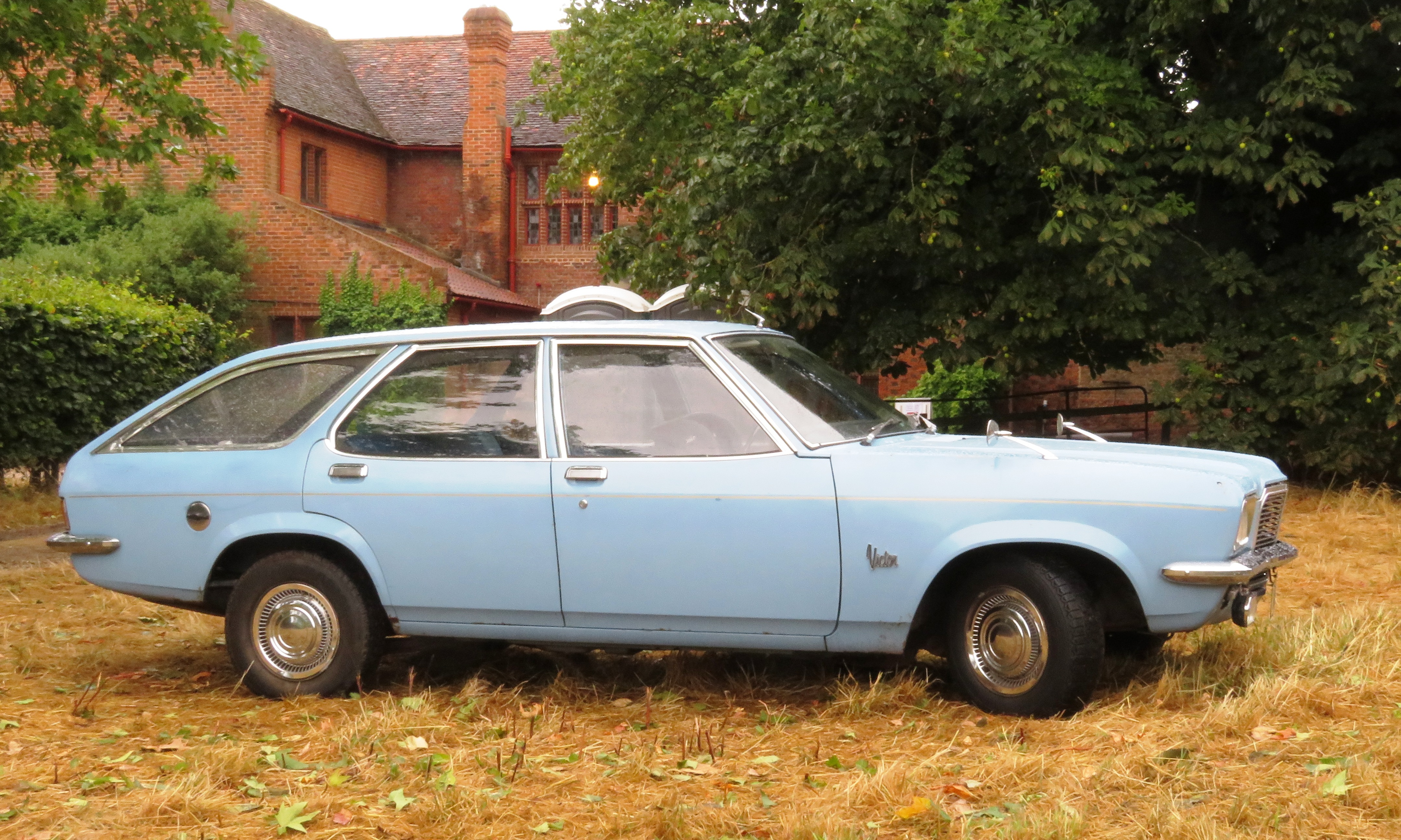 Vauxhall Victor FE estate (1972) at Ingatestone (2018)